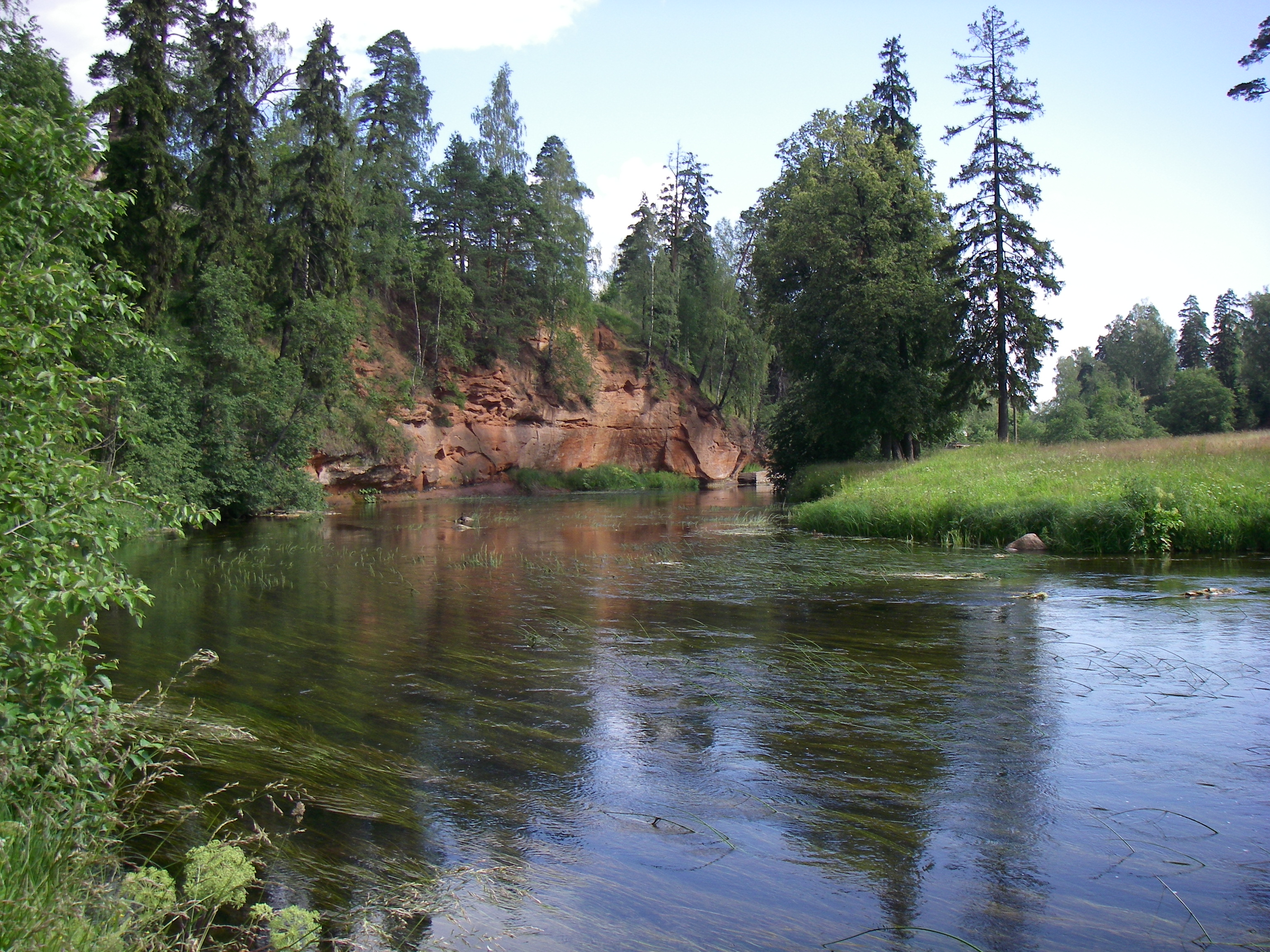 Oredezh river near Siverskiy settlement